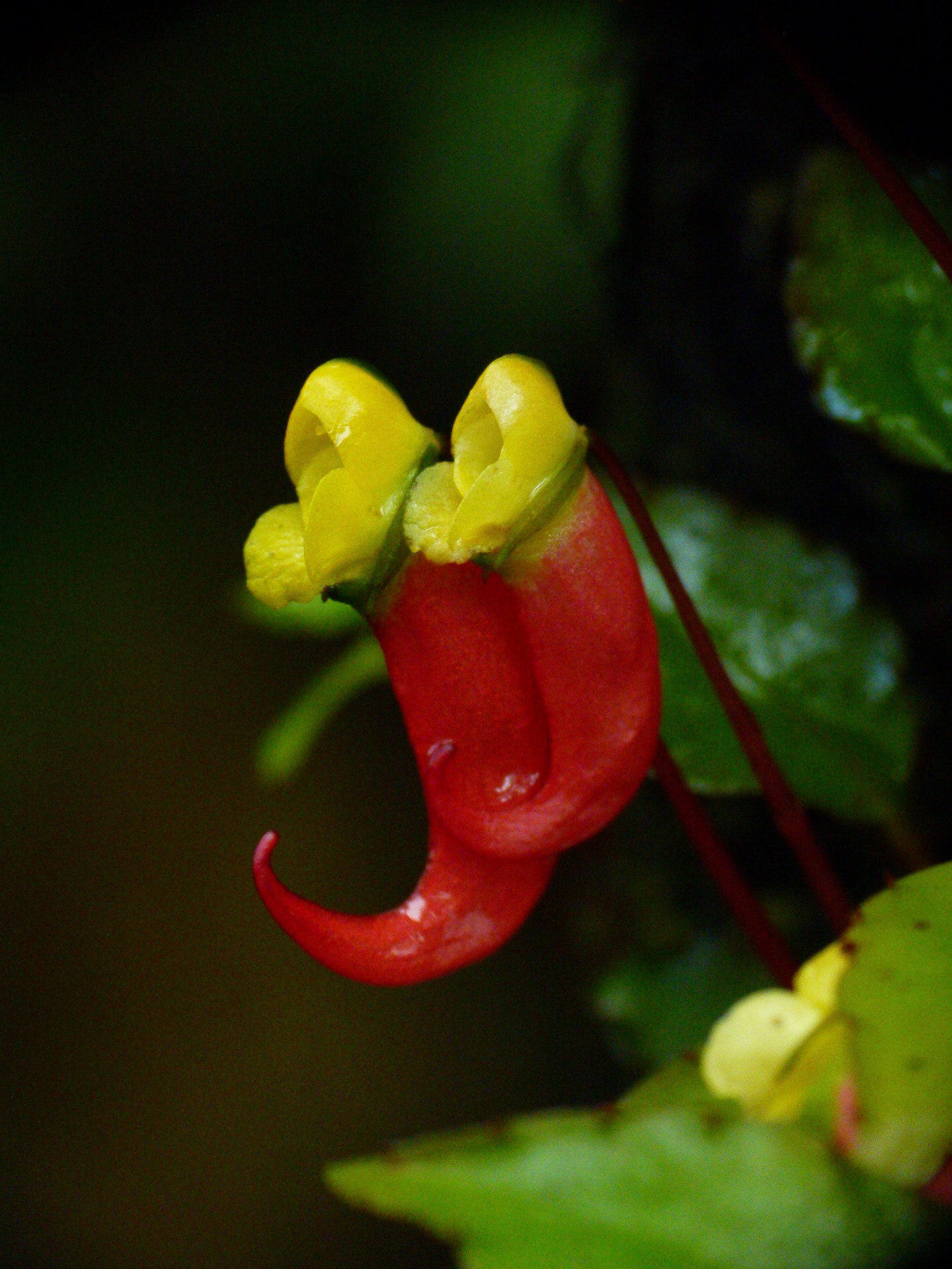 Impatiens jerdoniae, Wynaad, India